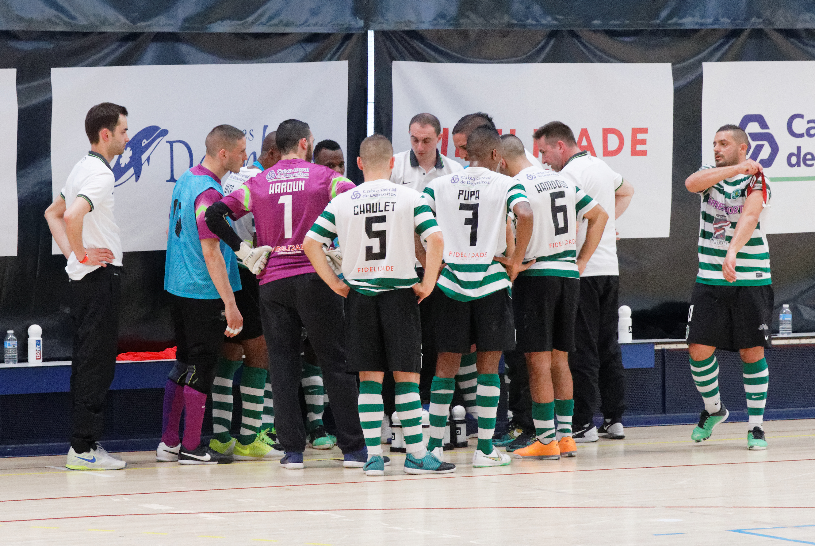 France futsal championship. Play-off. Sporting Club de Paris vs Kremlin-Bicêtre United.